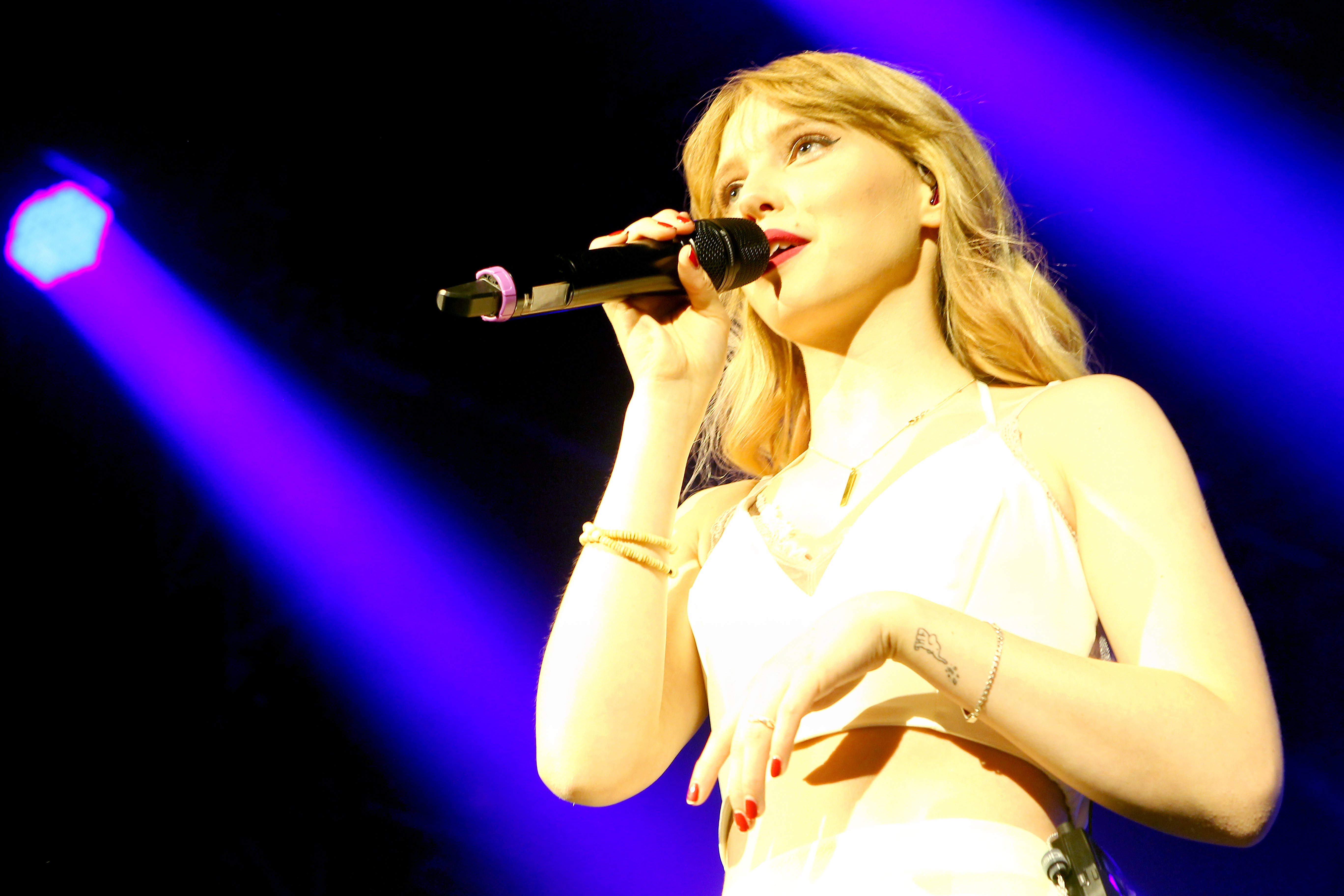 Lina Plays German Popmusic